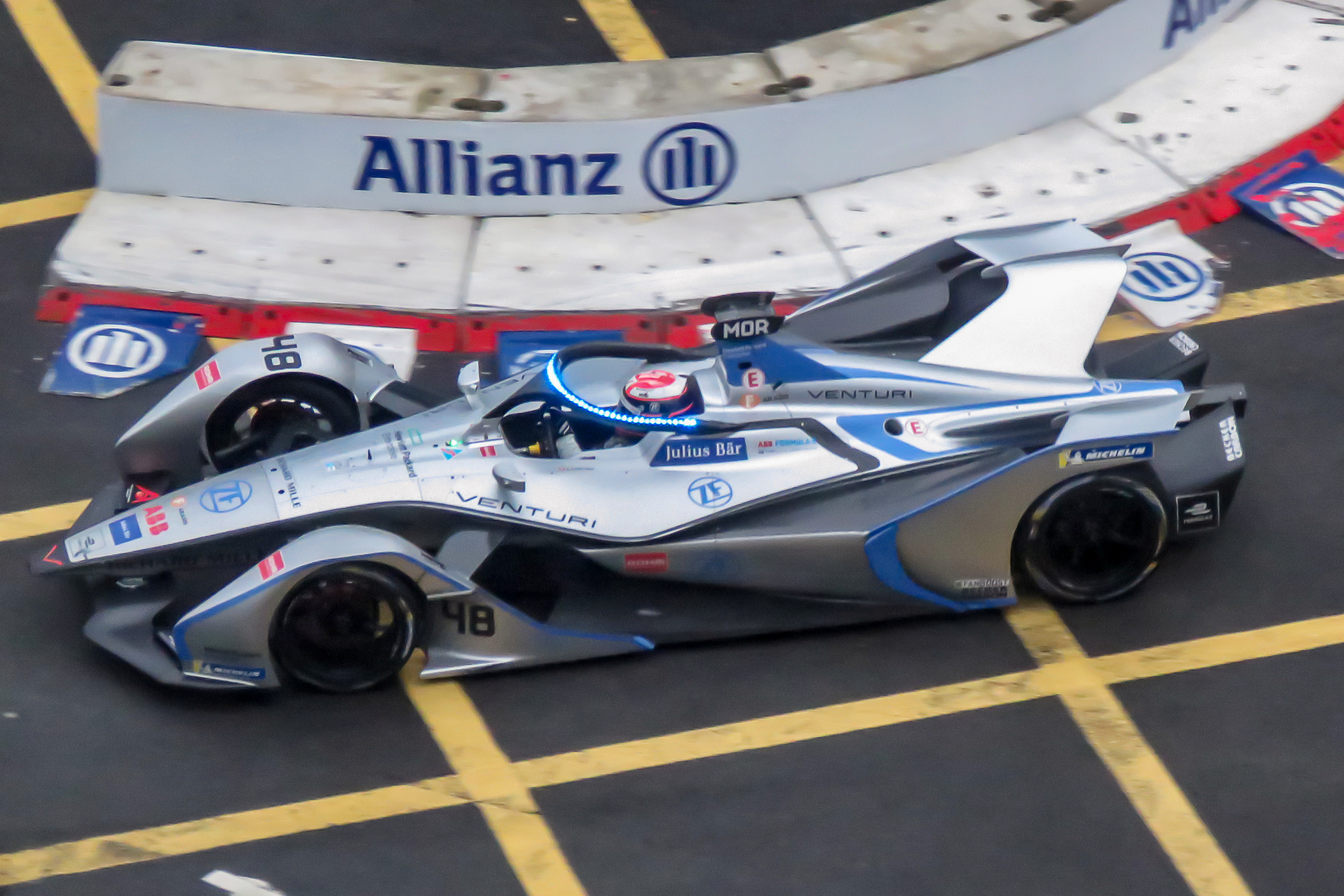 Bearing a ZF logo.